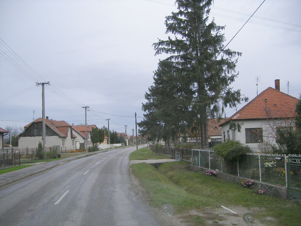 Čeľadince